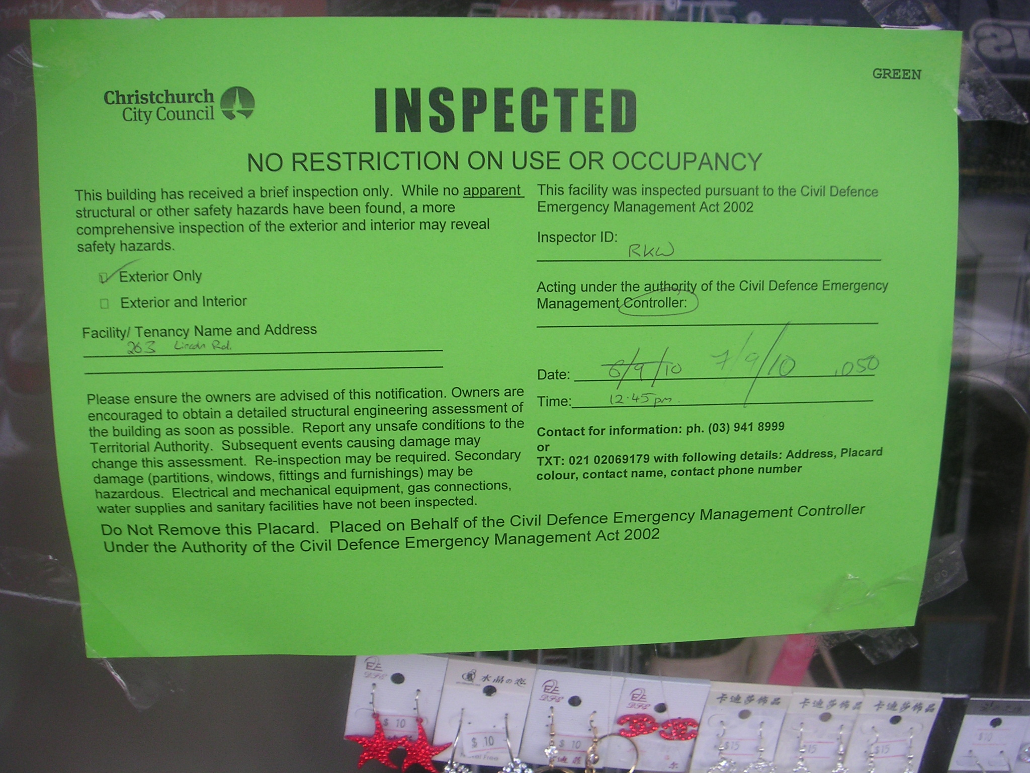 A structural inspection notice verifies a shop as safe for use after Christchurch earthquake in Lincoln Road, Addington.